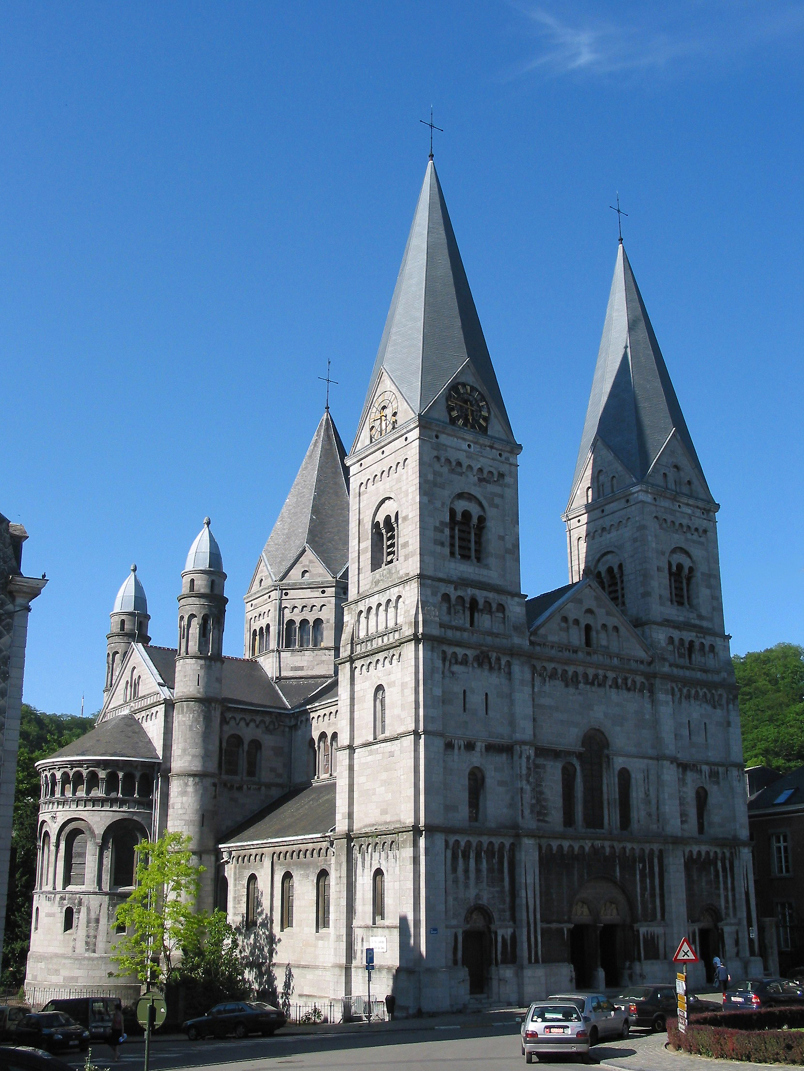 Spa, Belgium, the church of Saint Remaclus (1885).